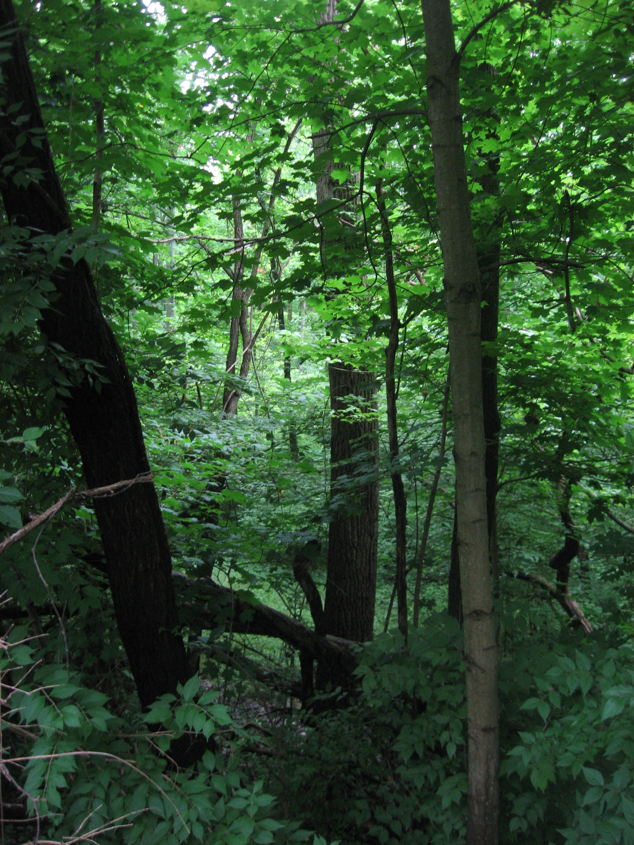 Looking down toward the Union Township Works II, an earthworks complex located on the southern side of Dimmick Road near Pisgah in West Chester Township, Butler County, Ohio, United States. Built either by the Adena or Hopewellian peoples, the earthworks are an important archaeological site; they are listed on the National Register of Historic Places.